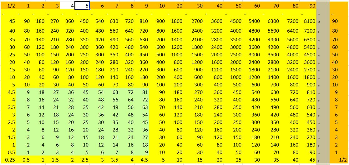 Diagram of an ancient decimal multiplication table